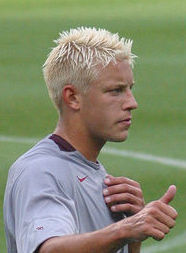 Manchester United footballer Alan Smith in training before friendly match vs Celtic. Lincoln Financial Field, Philadelphia